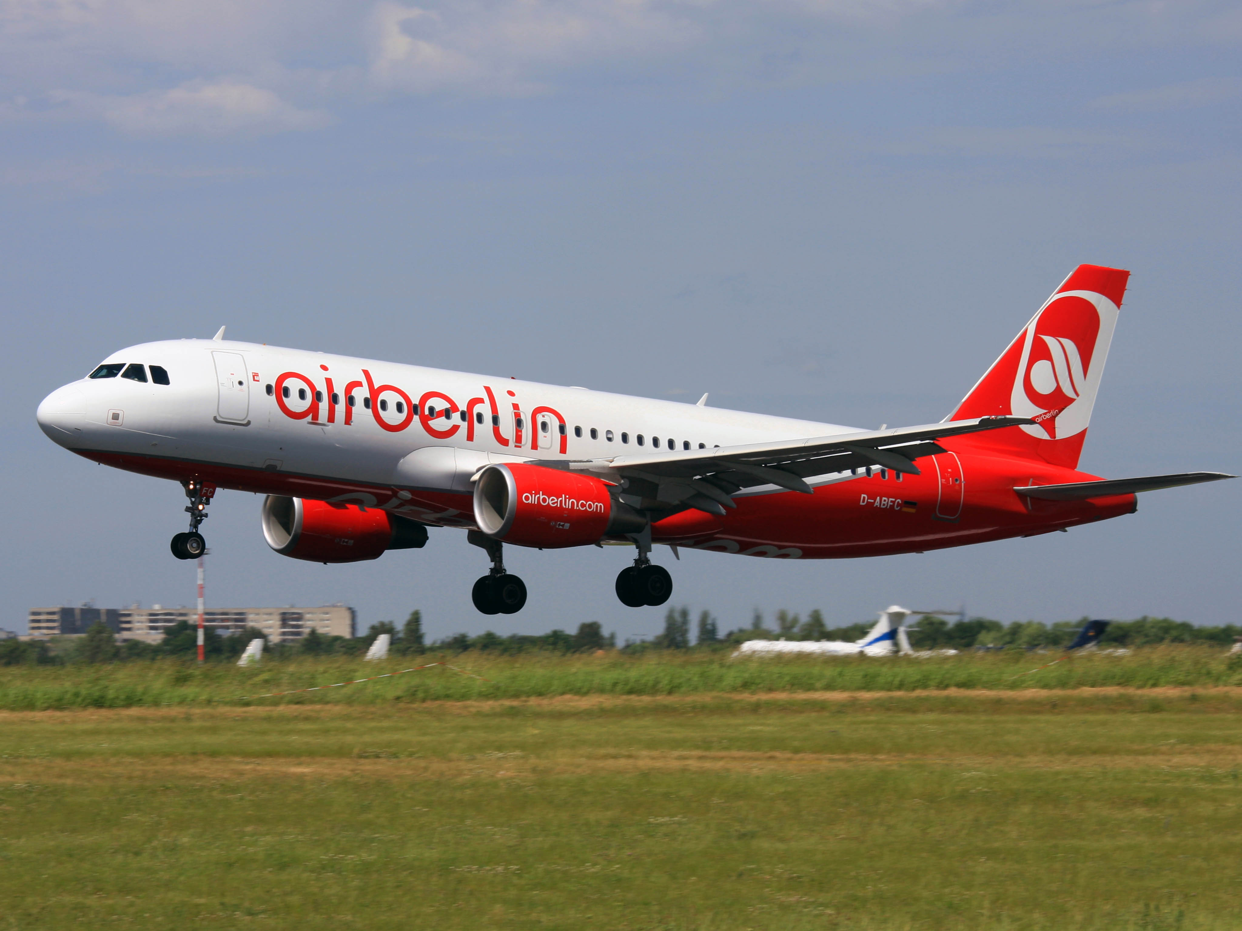 Airbus A320 of Air Berlin landing at Berlin Schönefeld Airport (picture taken during the International Air and Space Exhbition edited by Marius Palmen.)